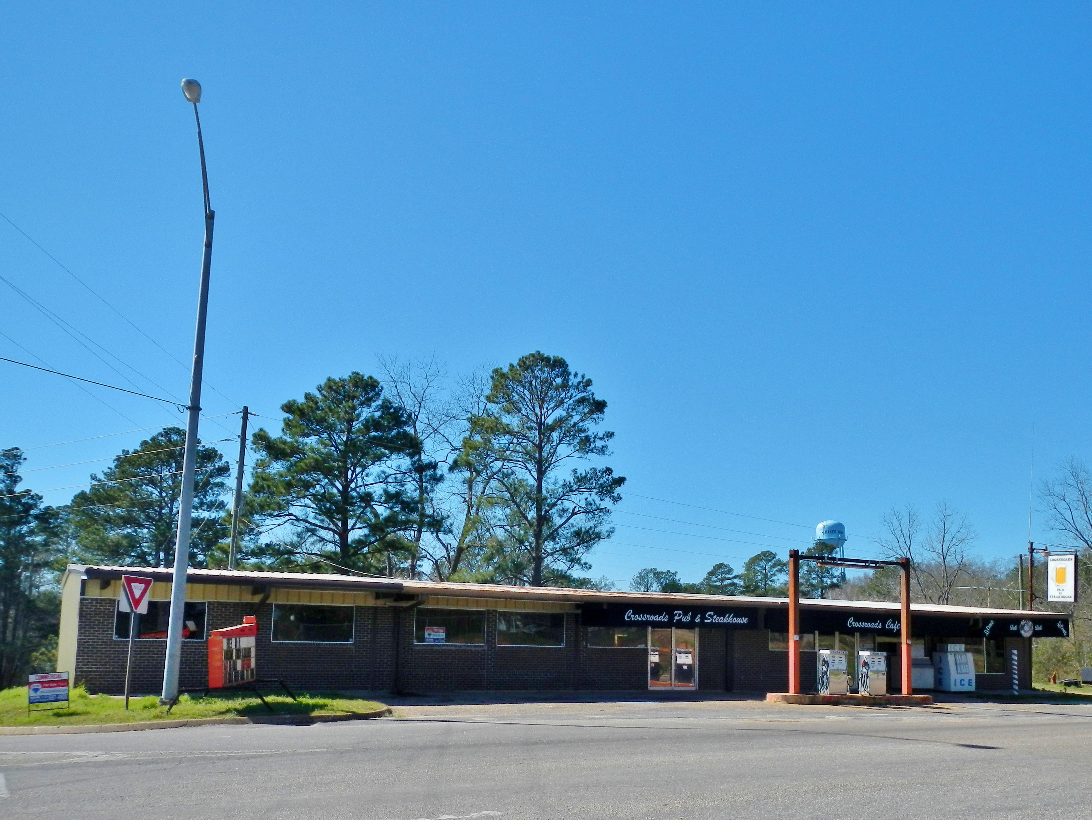 This is a photo of Bakerhill, Alabama